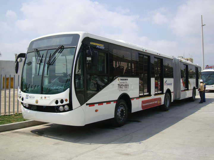 Busscar-Transmetro